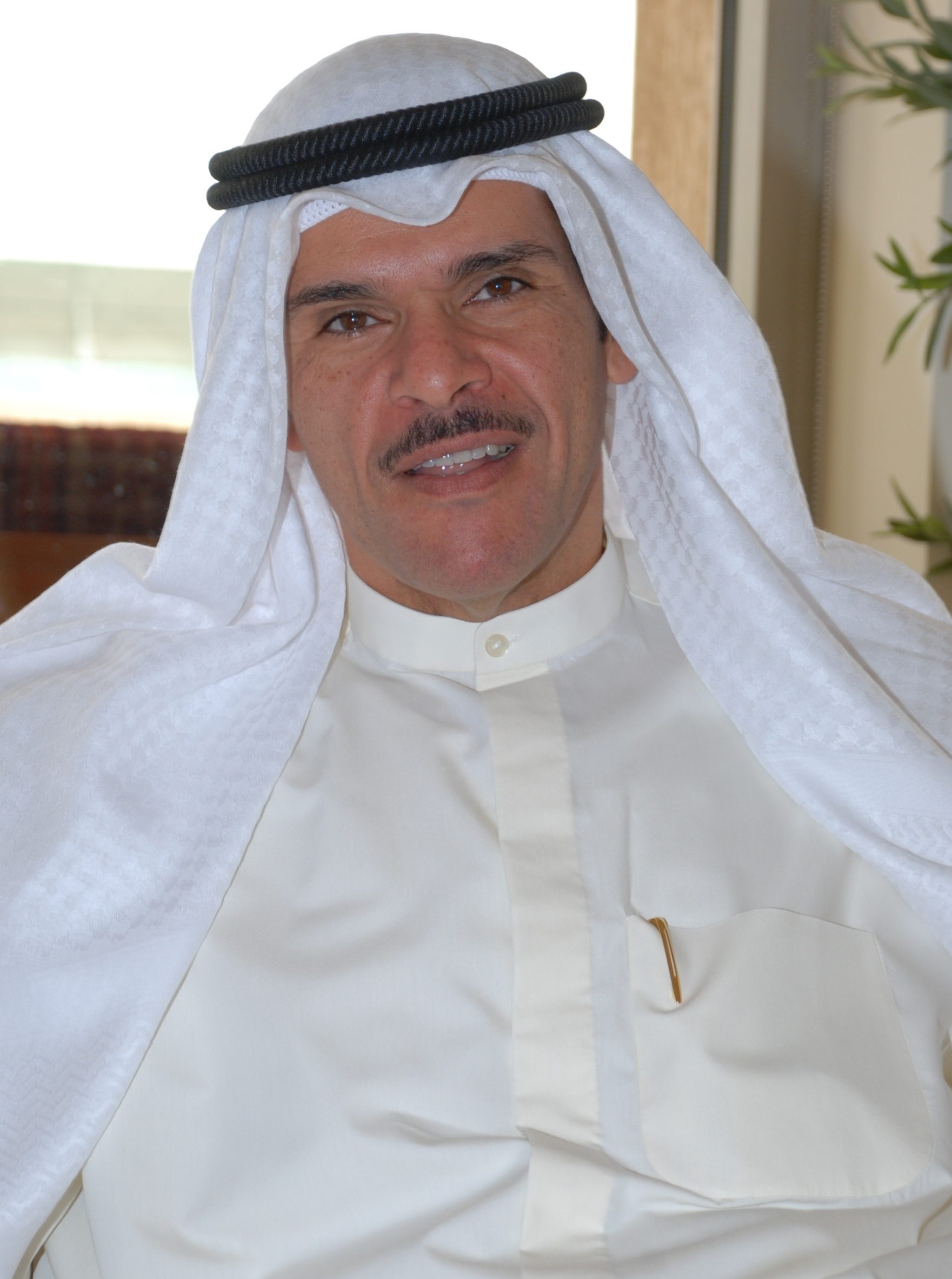 Sheikh Salman Sabah Al-Salem Al-Homoud Al-Sabah